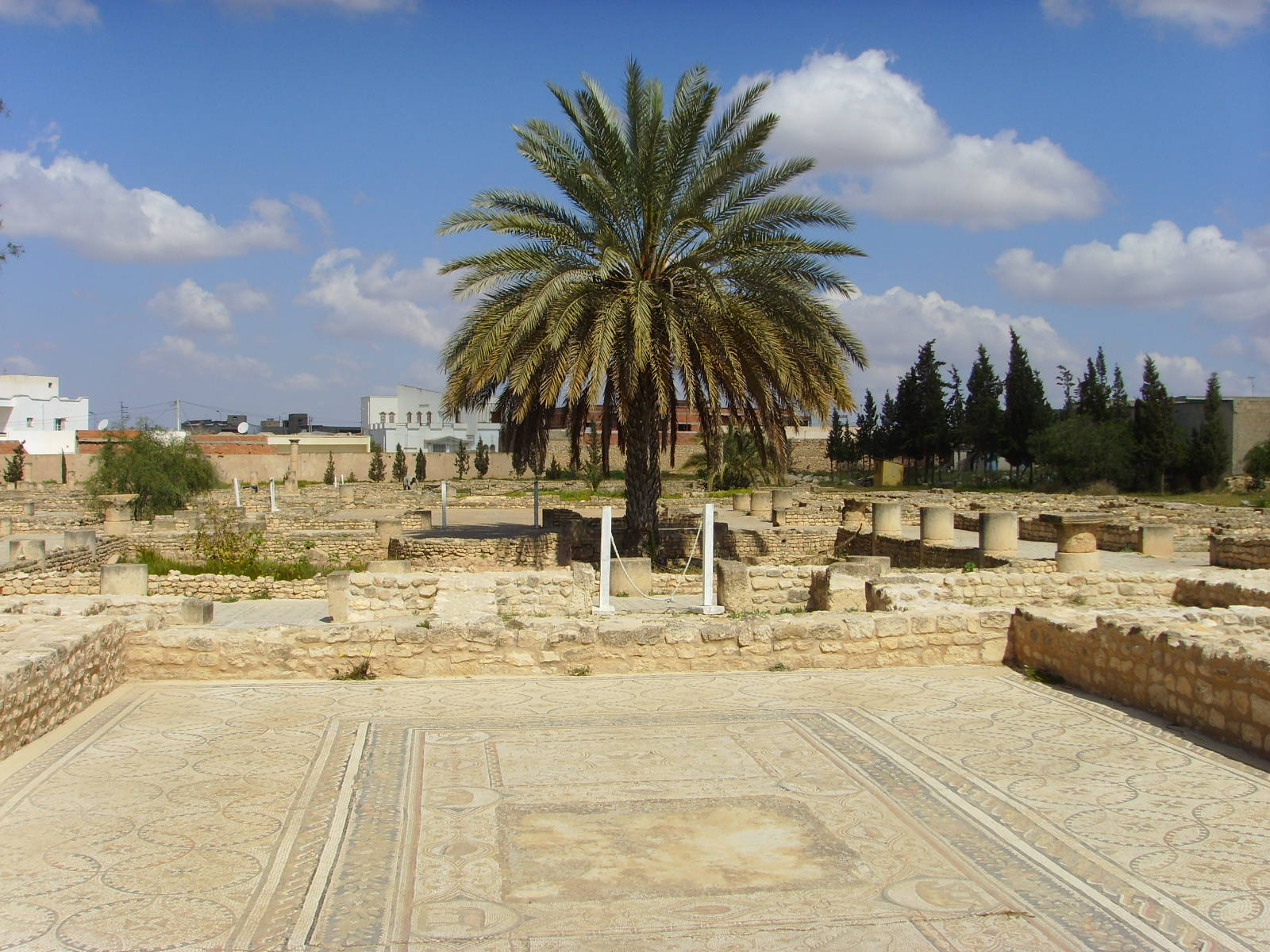 The archaelogical museum of El Jem